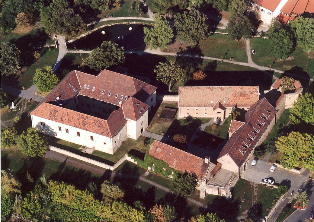 Castle - Szerencs - Hungary - Europe